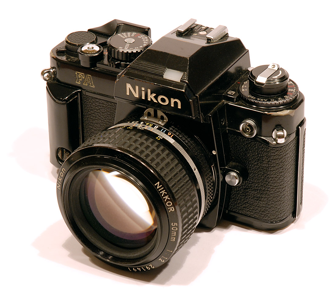 Front view of Nikon FA camera with Nikkor 50 mm f 1:1.2 lens